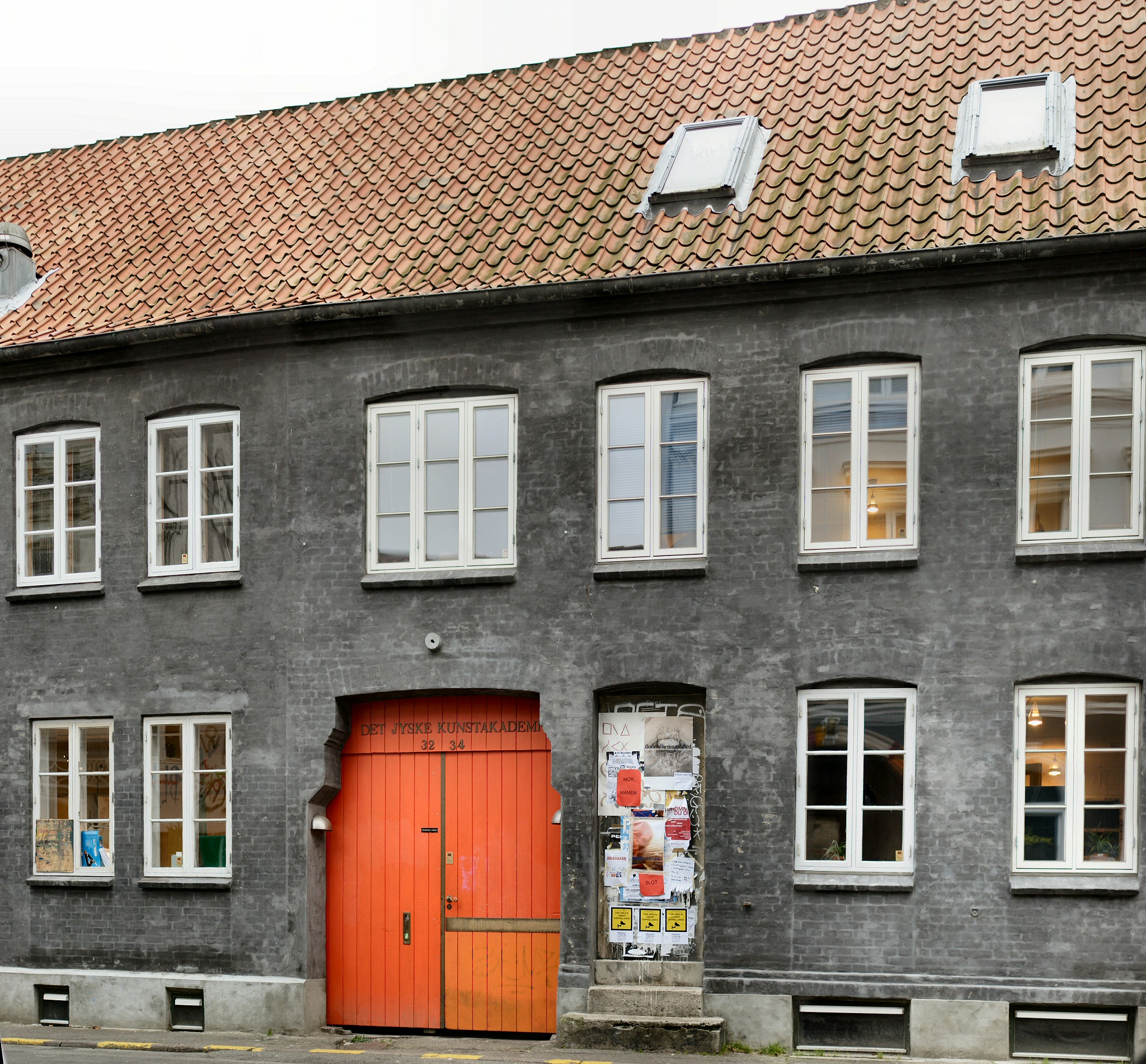 The Royal Academy of Fine Arts in Mejlgade in Århus, Denmark